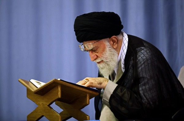 Ali Khamenei